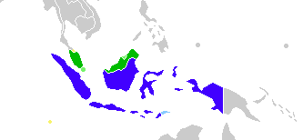 This is crop and edit of a .png export of the image at File:BlankMap-World6.svg. The original author released that image into the public domain for any use. This version is released under the CC-Zero license.